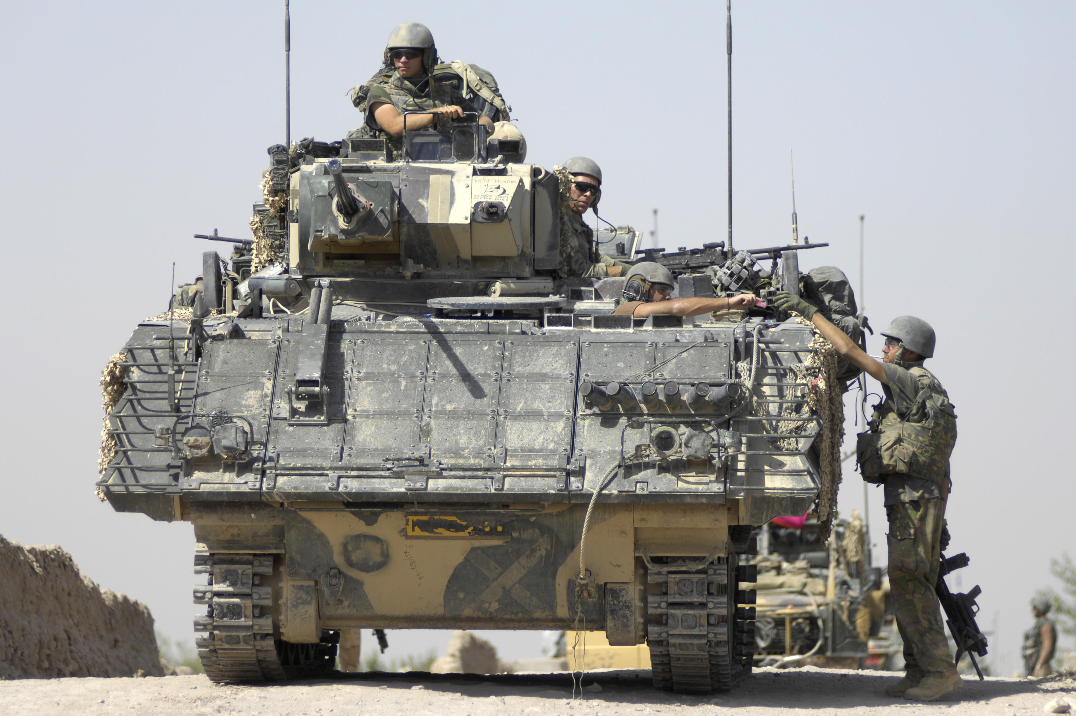 Uruzgan, Afghanistan: Soldiers from 2nd platoon, E-company, Battle Group 7, Task Force Uruzgan move toward Mirabad in an YPR765 armored infantry fighting vehicle. The platoon was on a 3-day International Security Assistance Force mission conducting foot patrols through villages to meet the Afghan people and build friendships, Aug. 19, 2008 (ISAF photo by Mass Communication Specialist 1st Class John Collins, U.S. Navy)